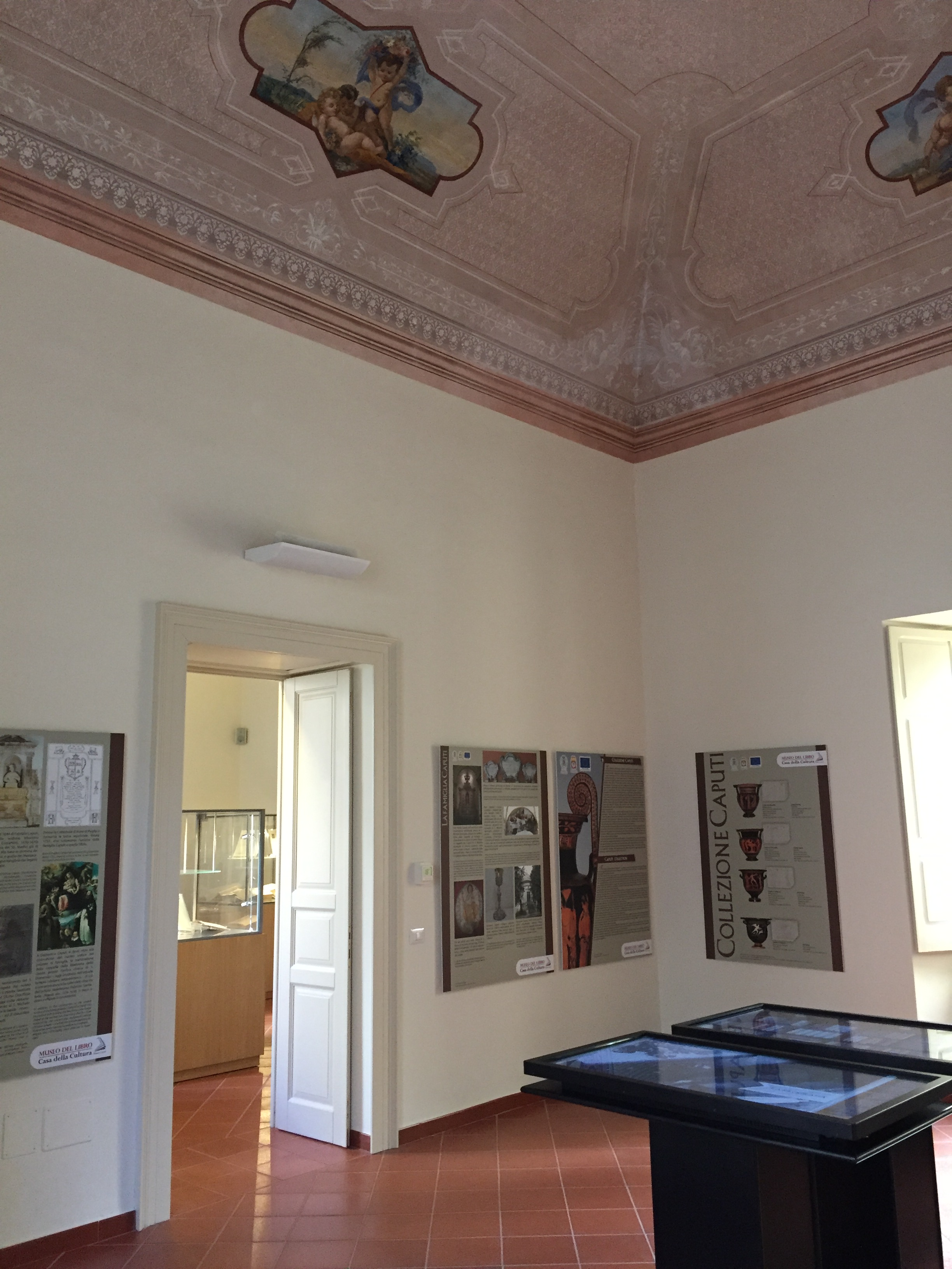 Stanza museo palazzo Caputi